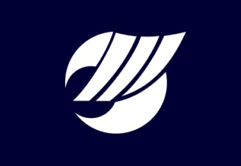 Flag of kawazu Shizuoka